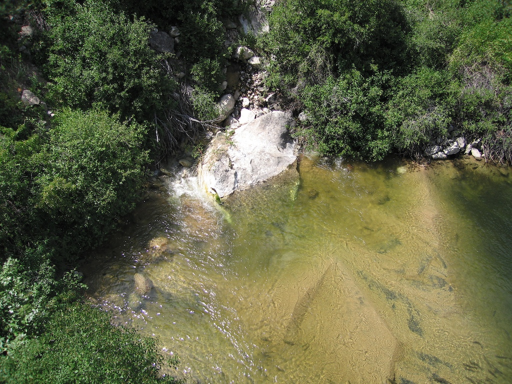 Sinks Canyon State Park, Wyoming. The Popo Agie River trickles out of the hillsides into a protected trout pool called 'The Rise,' and continues its path down the canyon.